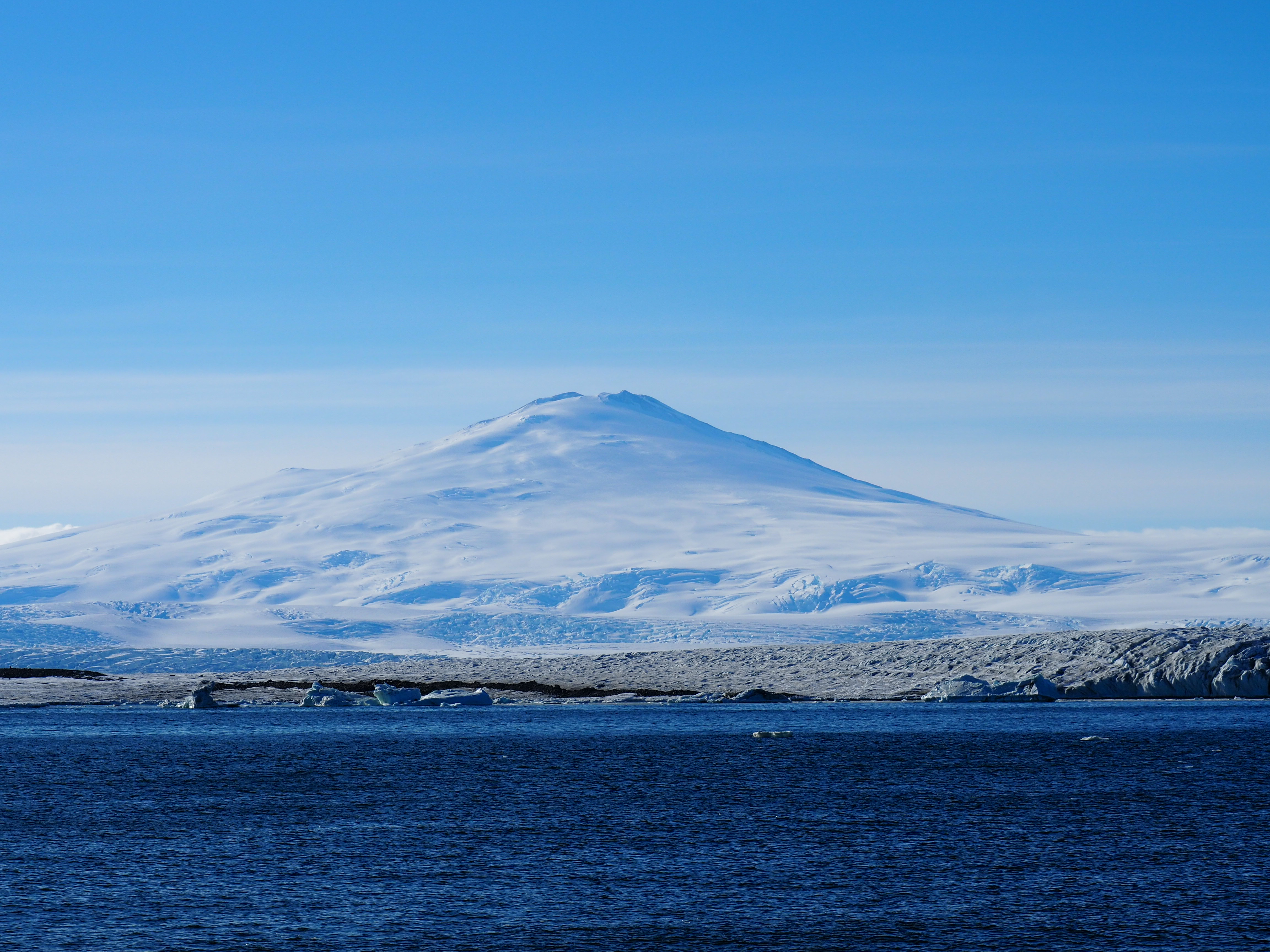 Mount Melbourne, Antarctica as seen from Korean research station (Jang Bogo Station).